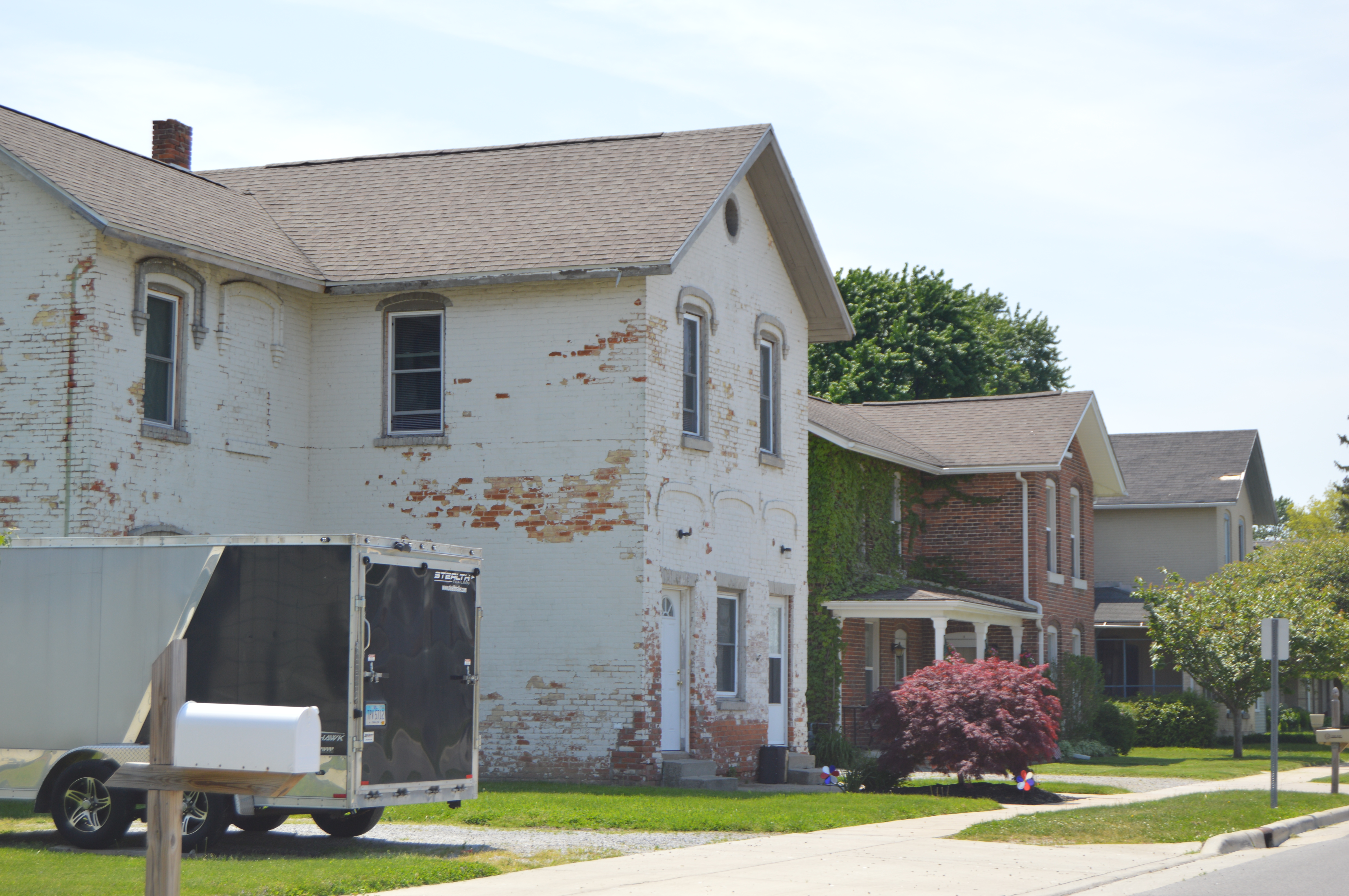 Houses on the southern side of Railroad Street, immediately west of the Maumee Street intersection, in Holland, Ohio, United States.